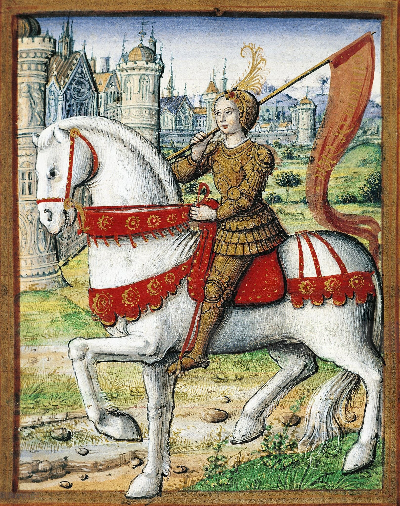 Joan of Arc depicted on horseback in an illustration from a 1504 manuscript.